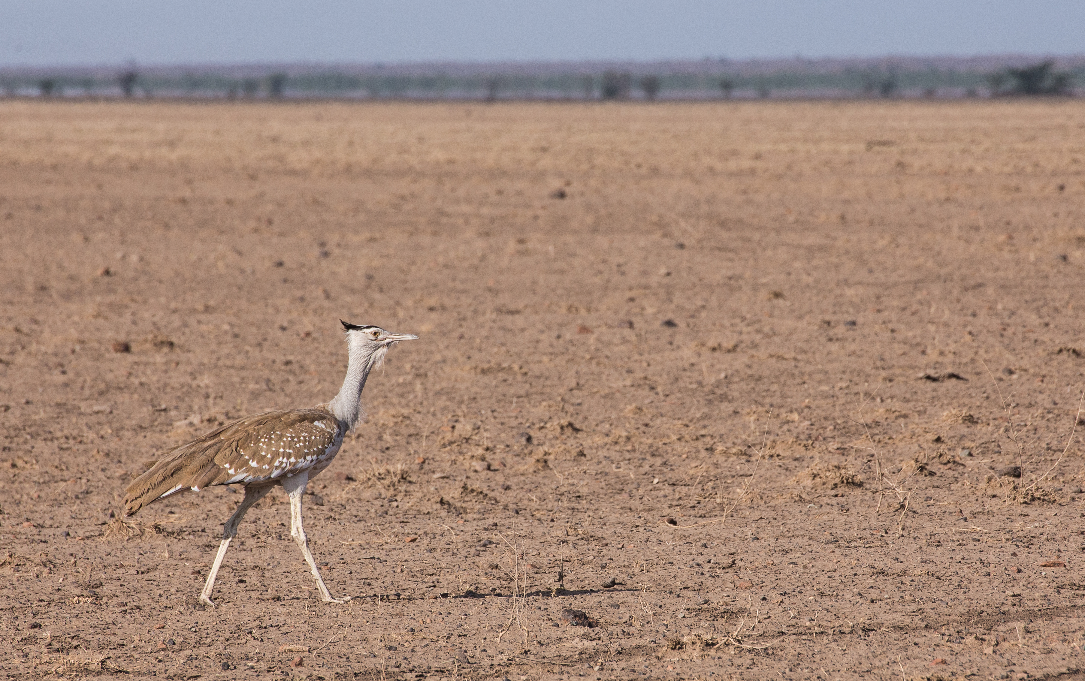 Arabian bustard (Ardeotis arabs) in Ethiopia